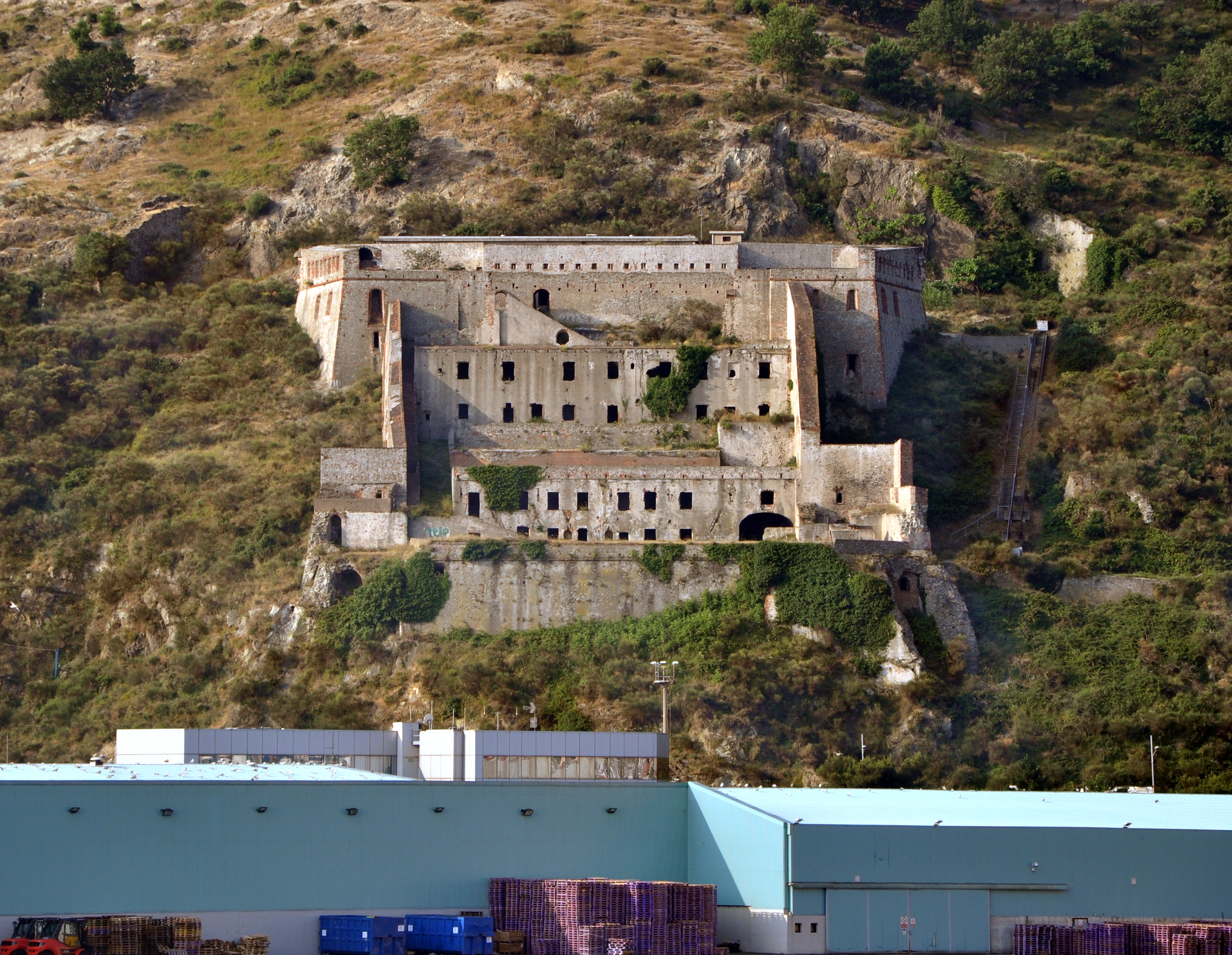 A fort in Vado Ligure